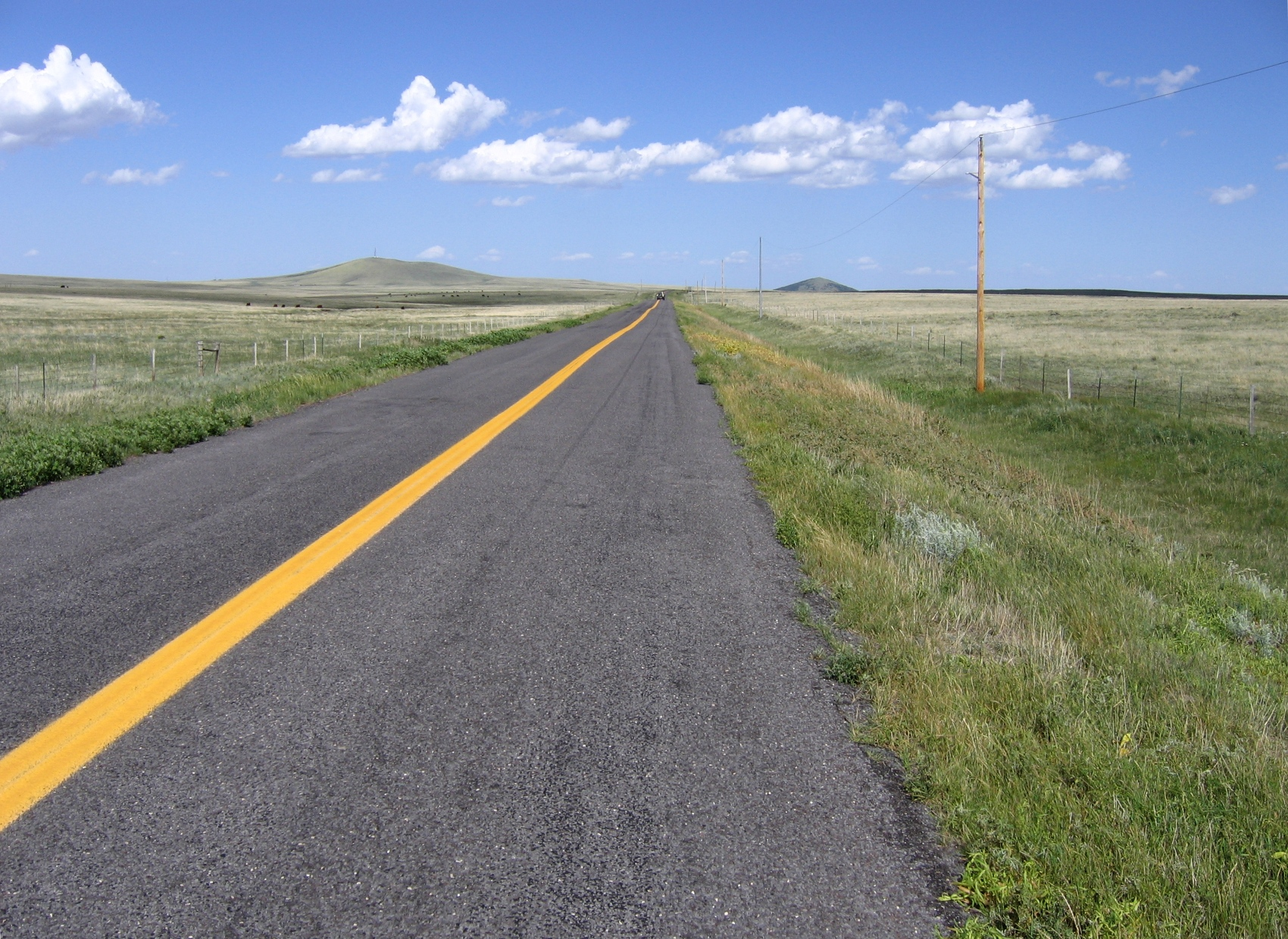 Looking east on New Mexico State Road 72 on Johnson Mesa in New Mexico, USA.